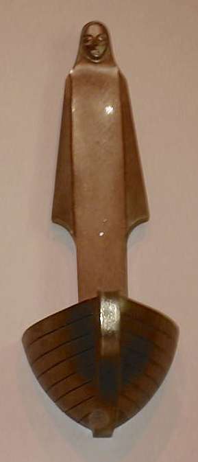 Bronze statue of Our Lady standing on the prow of a boat made by Arthur Dooley. Statue is located in The Maritime Chapel of St Mary del Quay, situated inside St Nick's Church, Liverpool.